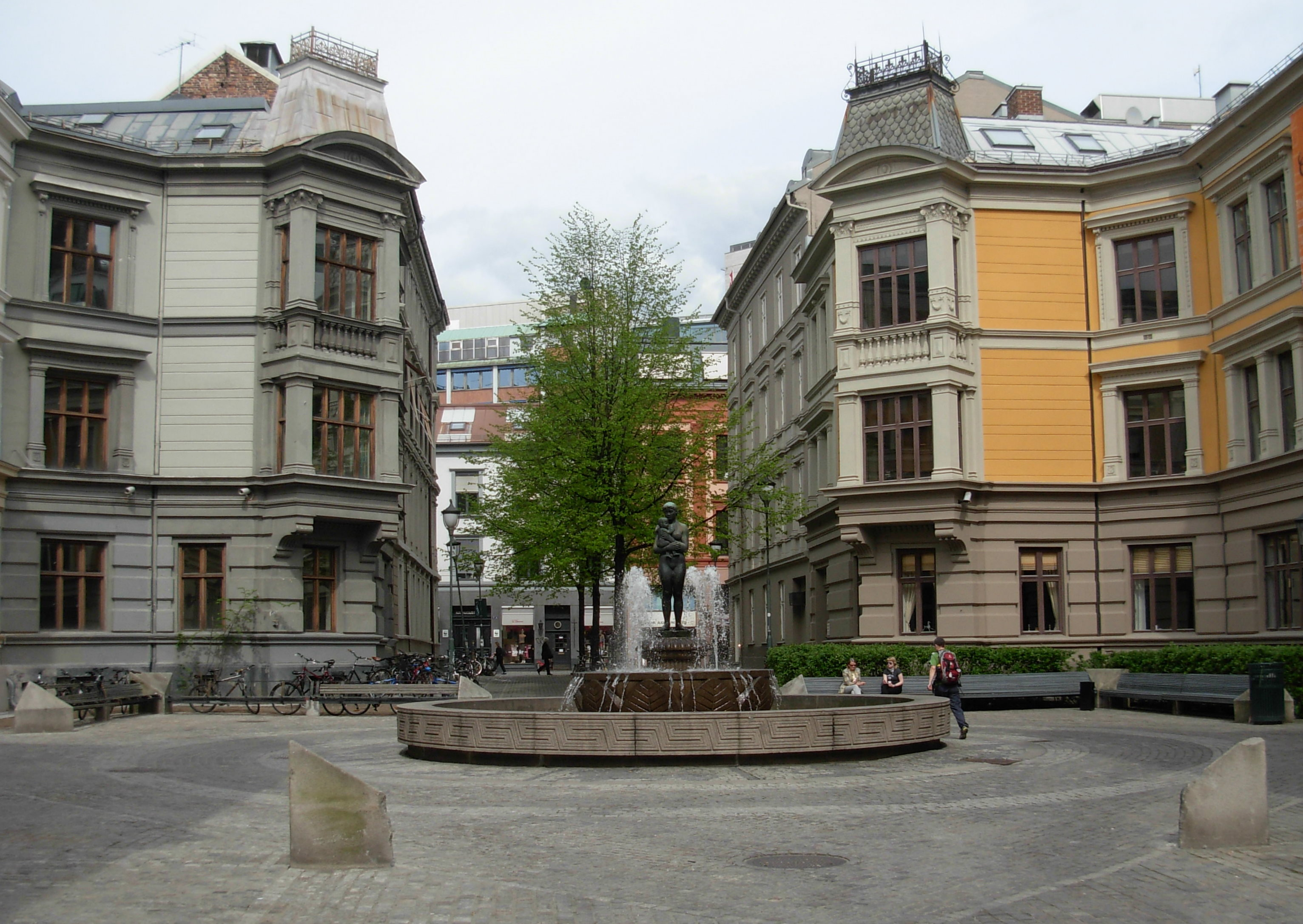 Sehesteds plass, Oslo